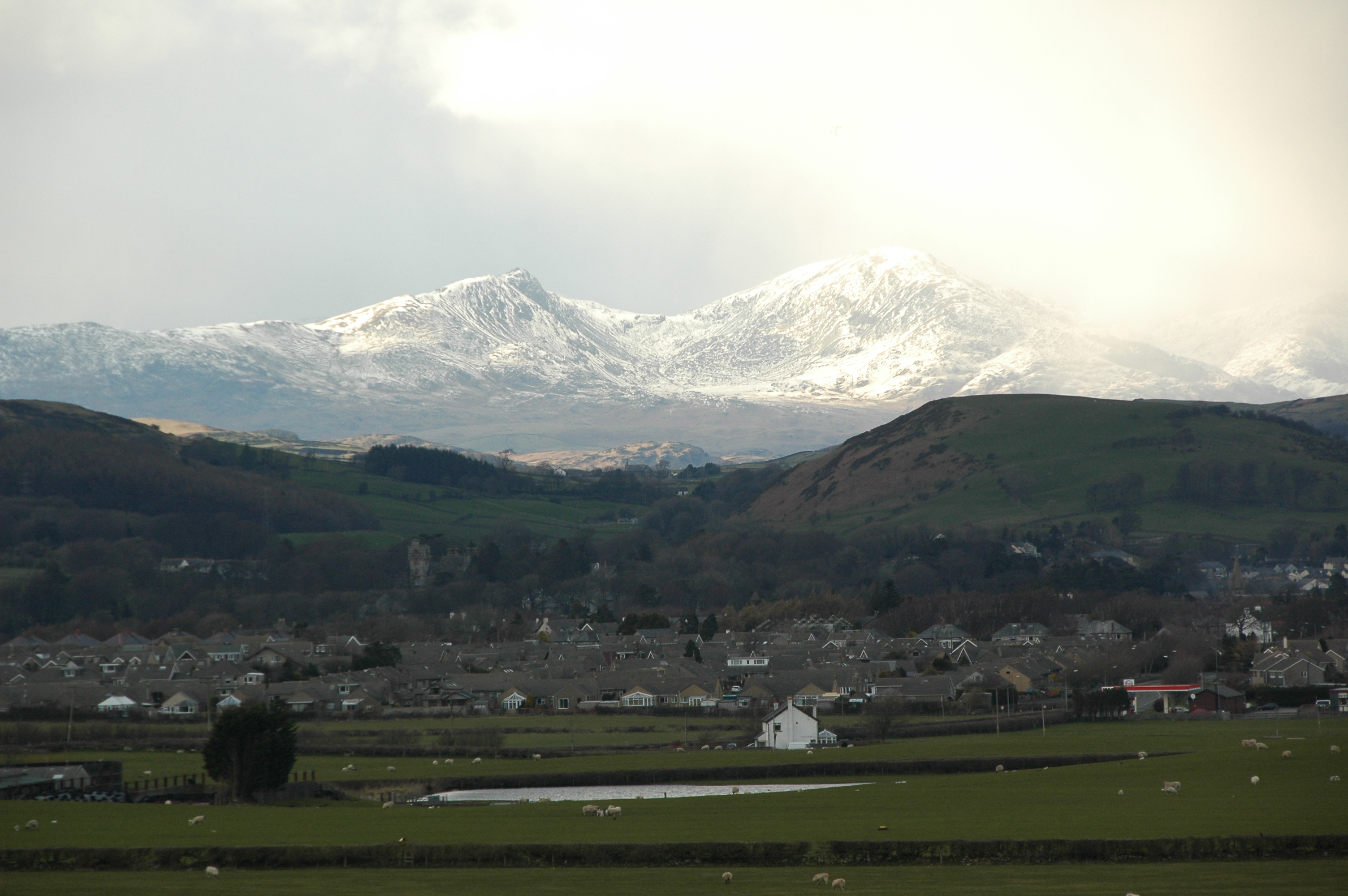 Ulverston from Birkrigg with Dow Crag and the Old Man in the distance.